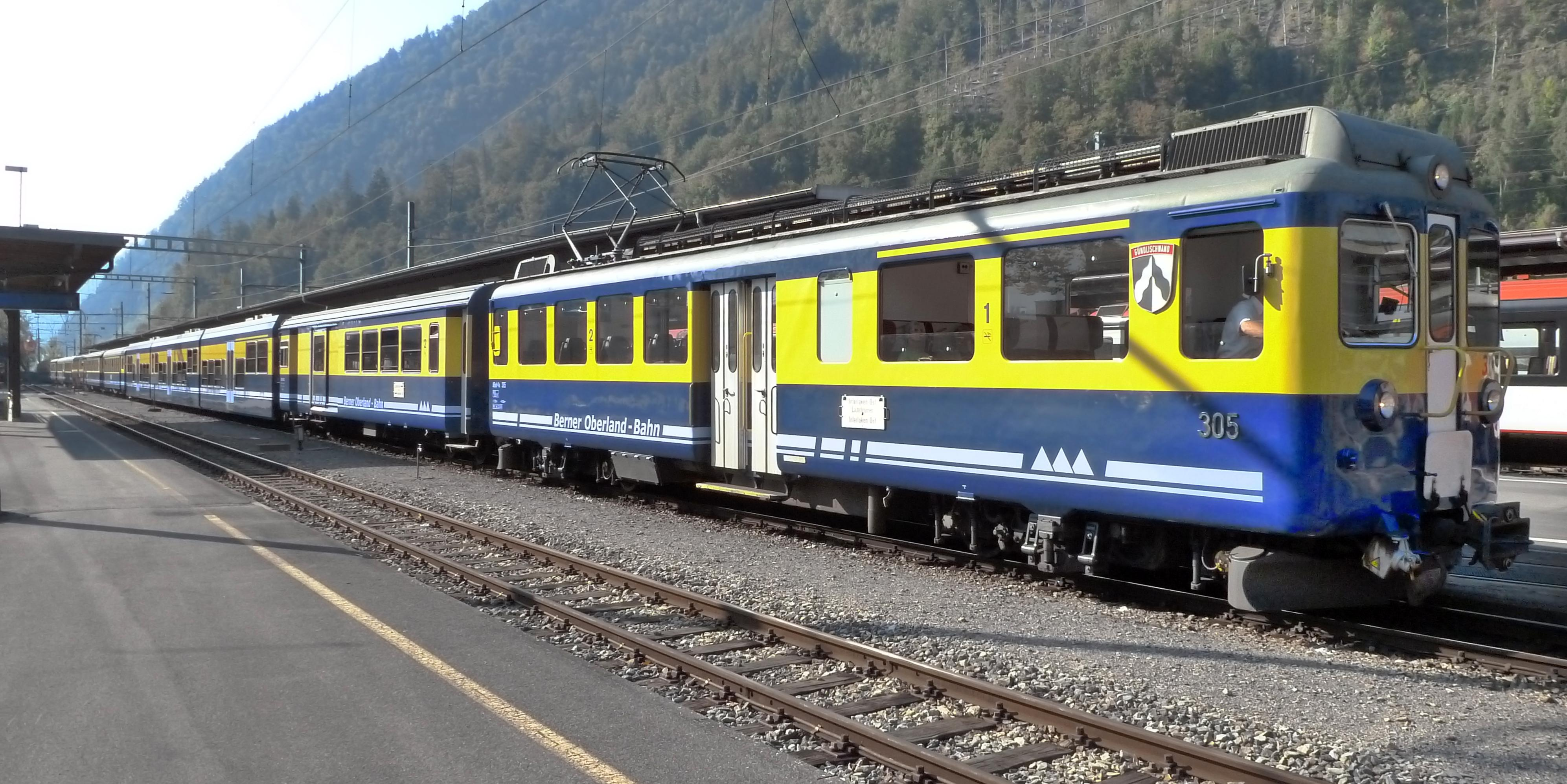 Train of the Berner Oberland-Bahn from Interlaken Ost to Lauterbrunnen and Grindelwald. The train will be split up in Zweilütschinen. At the head end is the ABeh 4/4 I 305 (1965), in the middle the ABeh 4/4 II 311 (1986). The train consists of various types of rolling stock, including two articulated low-floor driving trailers ABt built 2004 by Stadler.